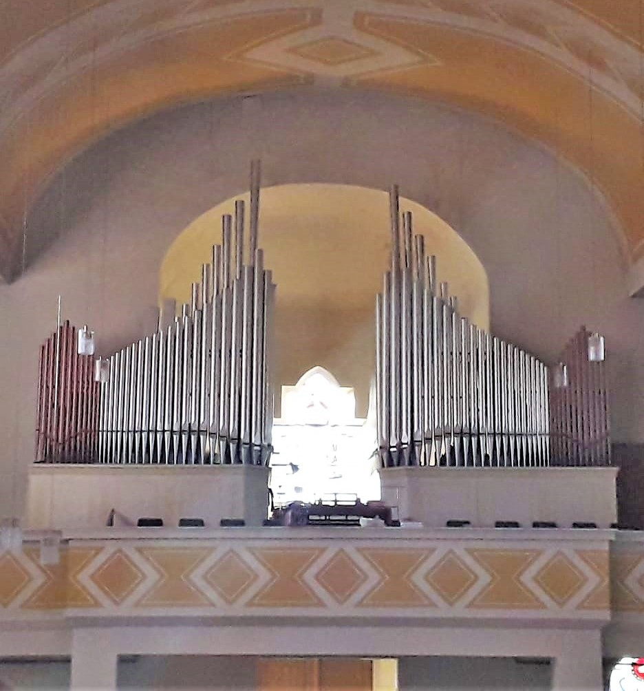 roman catholic St.-Mary's church in Saarbrücken, Saarland, Germany